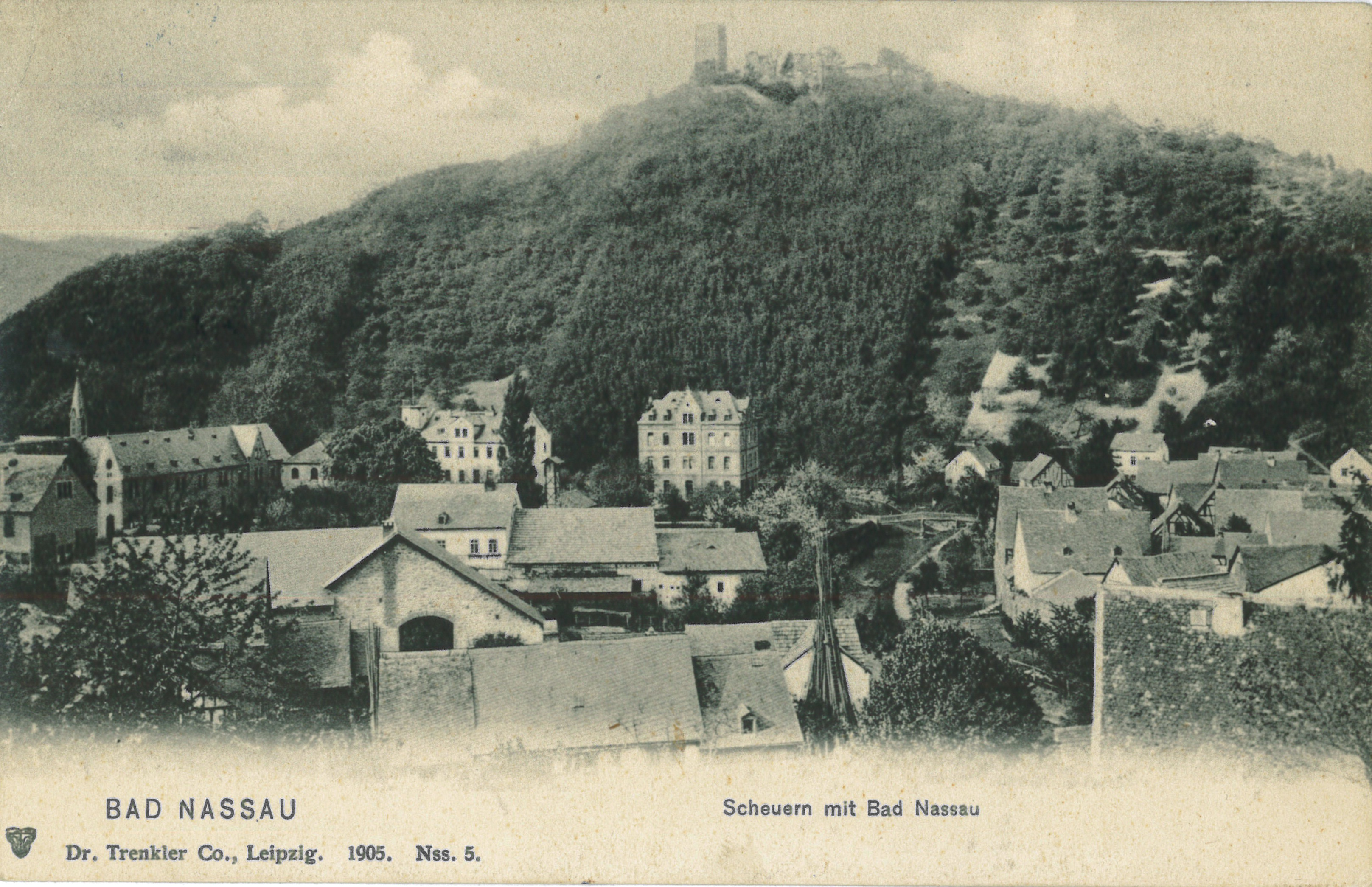 Historic view of Nassau scrub with the homes scrub in the left picture area and the castle Nassau on the mountain.